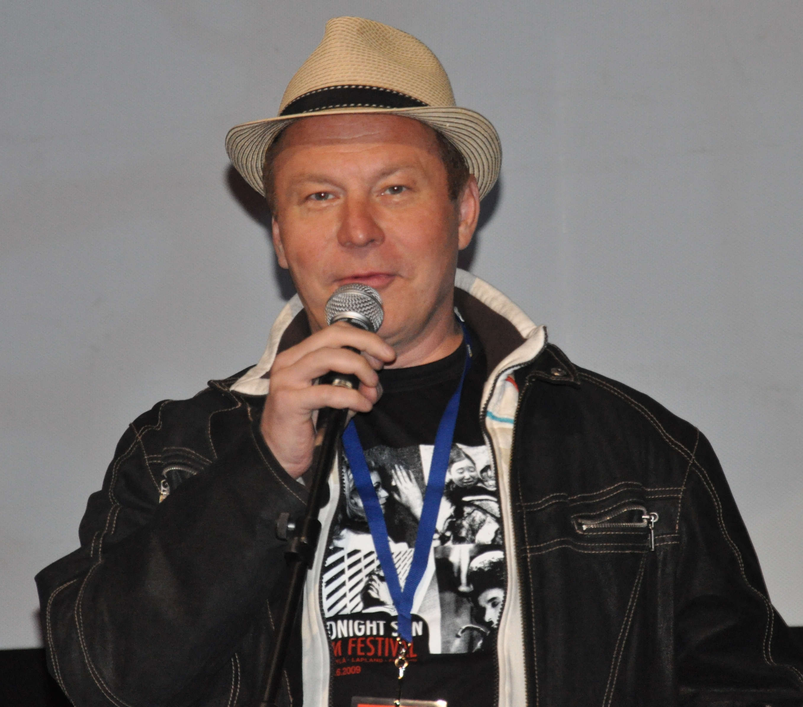 Finnish film director Heikki Kujanpää at the Midnight Sun Film Festival 2009 in Sodankylä, Finland.